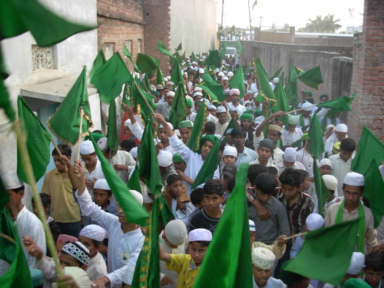 Milad, birthday of the prophet Muhammad procession in Bhadohi U.P